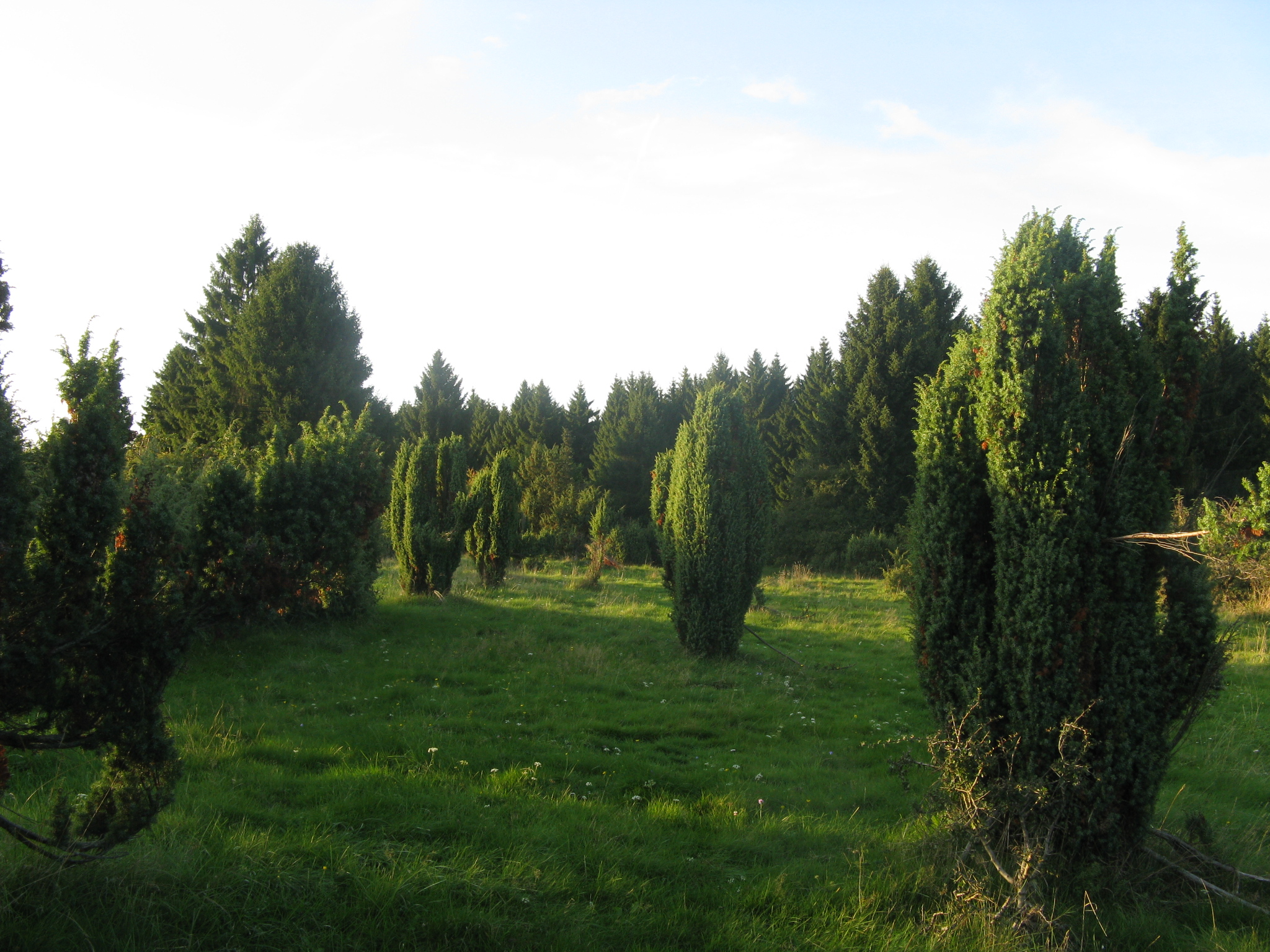 juniper heathlands, natural reserve, near Westernohe, Westerwald, Germany